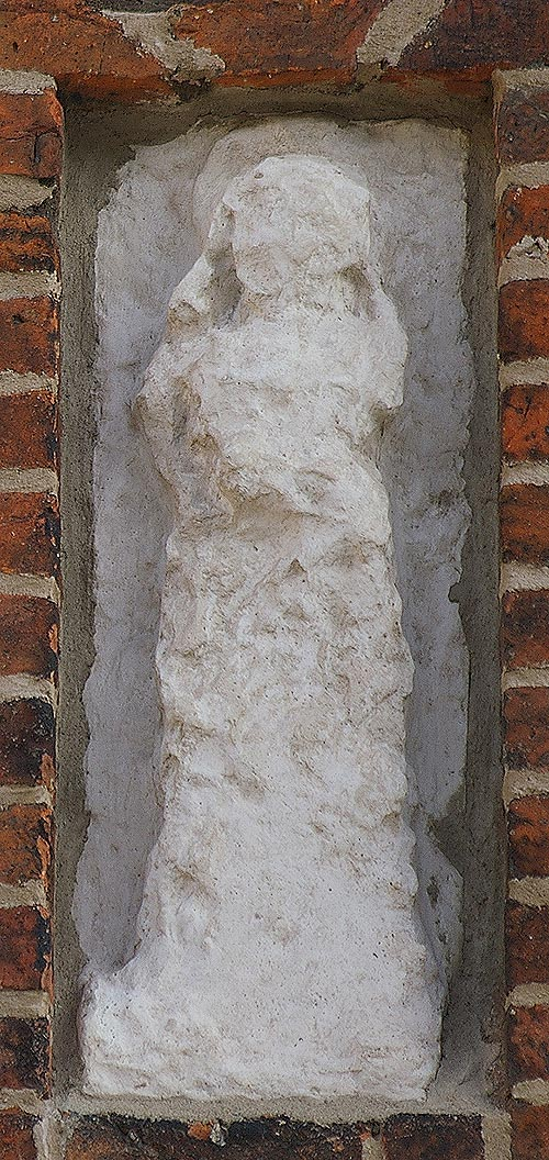 Sculpture Virgin Mary, St. Peter church, Malmo, Sweden, about 1460.